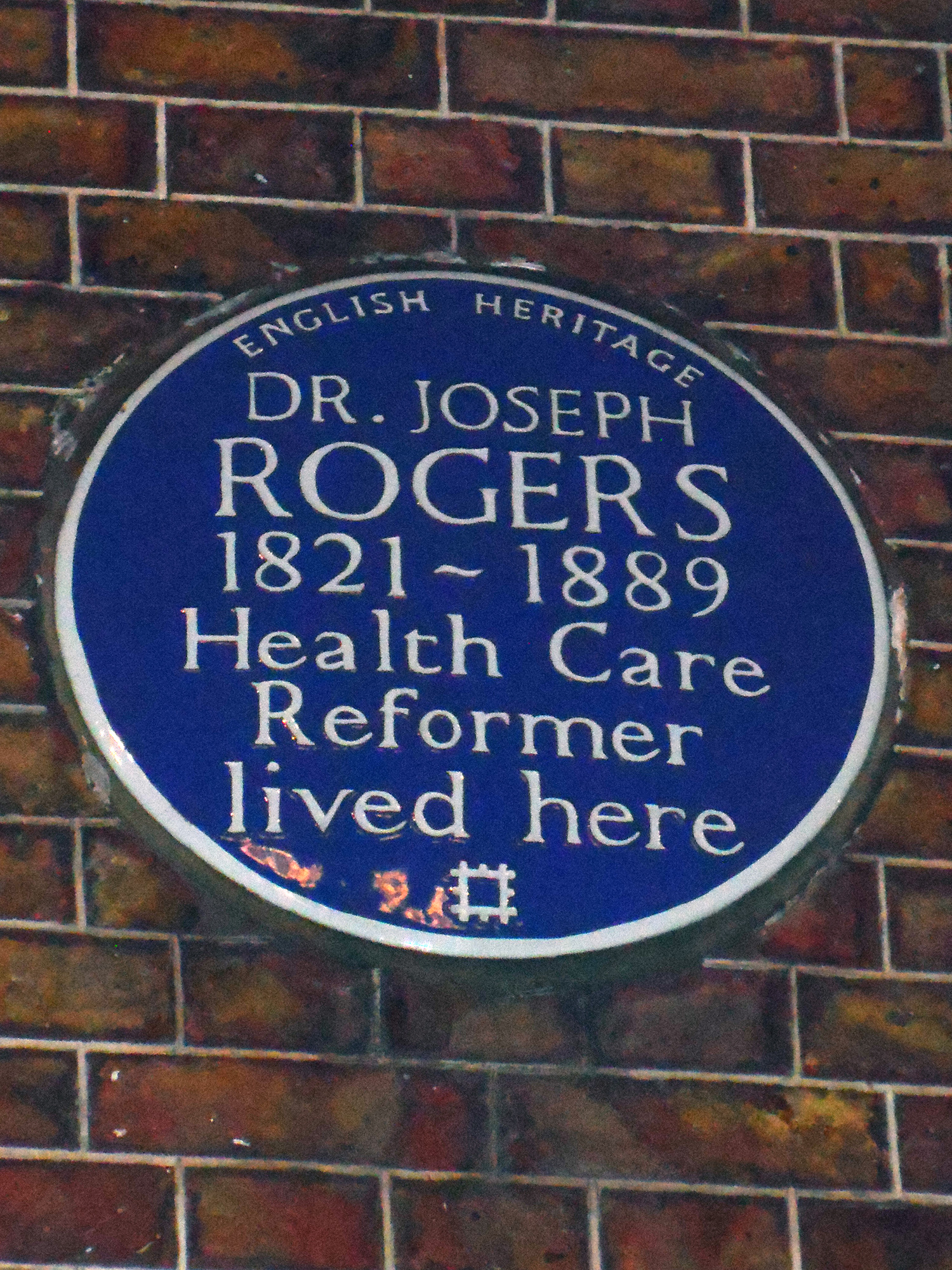 33 Dean Street Soho